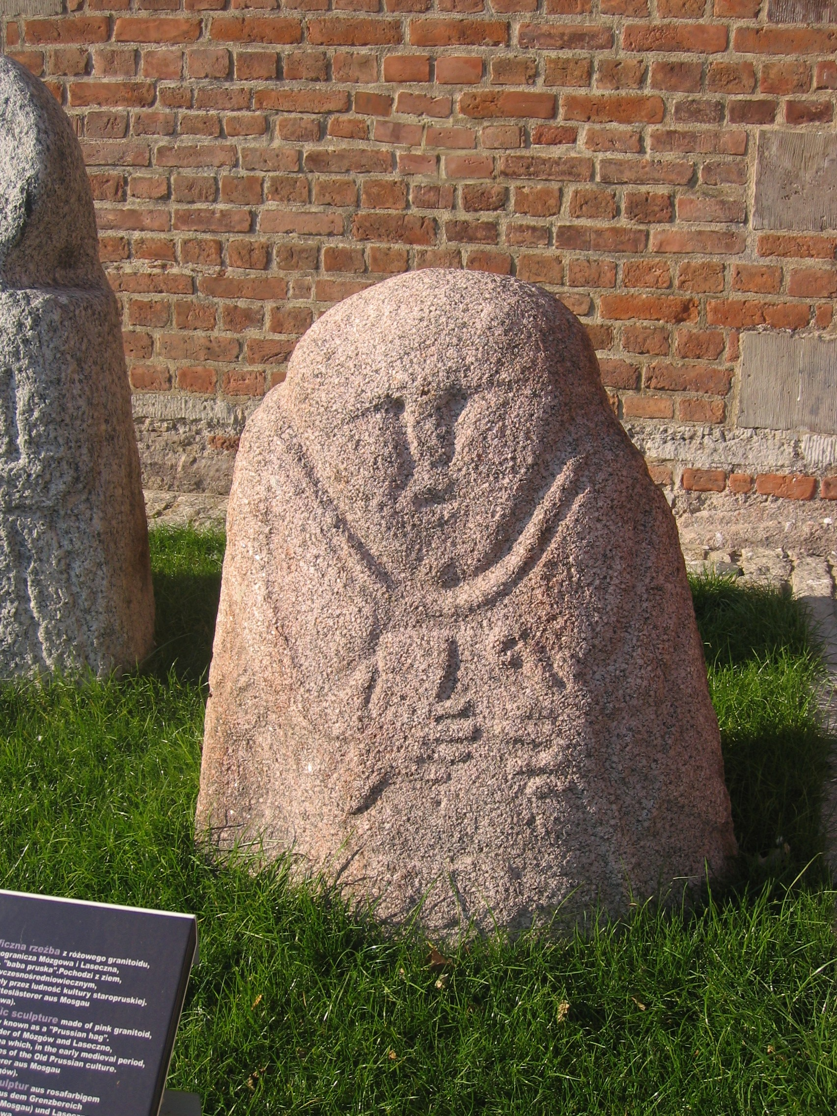 Stone baba from Mózgowo/Laseczno in Gdańsk Archaeological Museum.